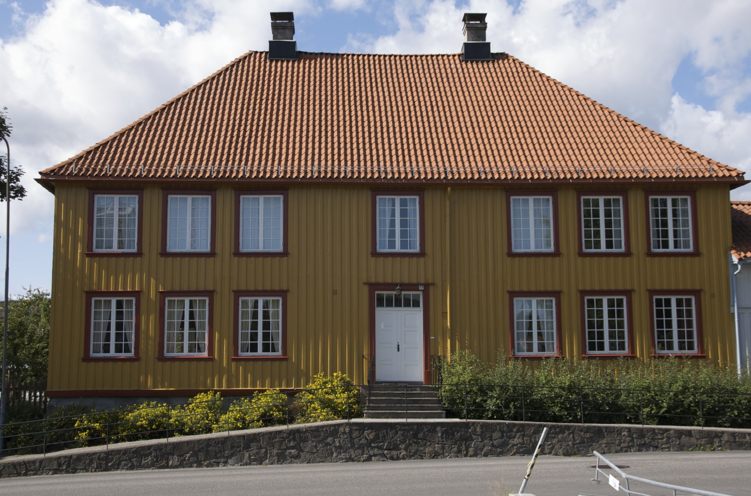 Building in Skien, Norway.